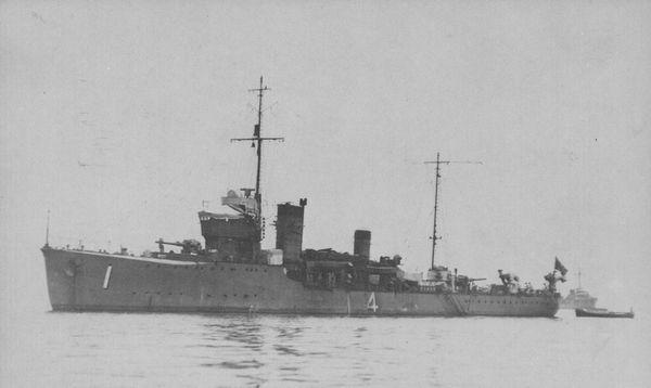 HIJMS MSC-4 (No.1 class minesweeper)